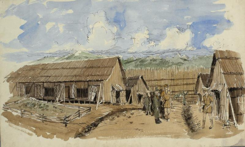 Kiirung, Formosa - the exterior of a Japanese prison camp image: Japanese soldiers take British soldiers on an inspection of a Prisoner of War camp. Long, low, dilapidated wooden huts stand either side of the group. In the foreground is a small garden. The camp is surrounded by a high wooden fence which runs across the background of the image, revealing only the peaks of the mountains in the distance.